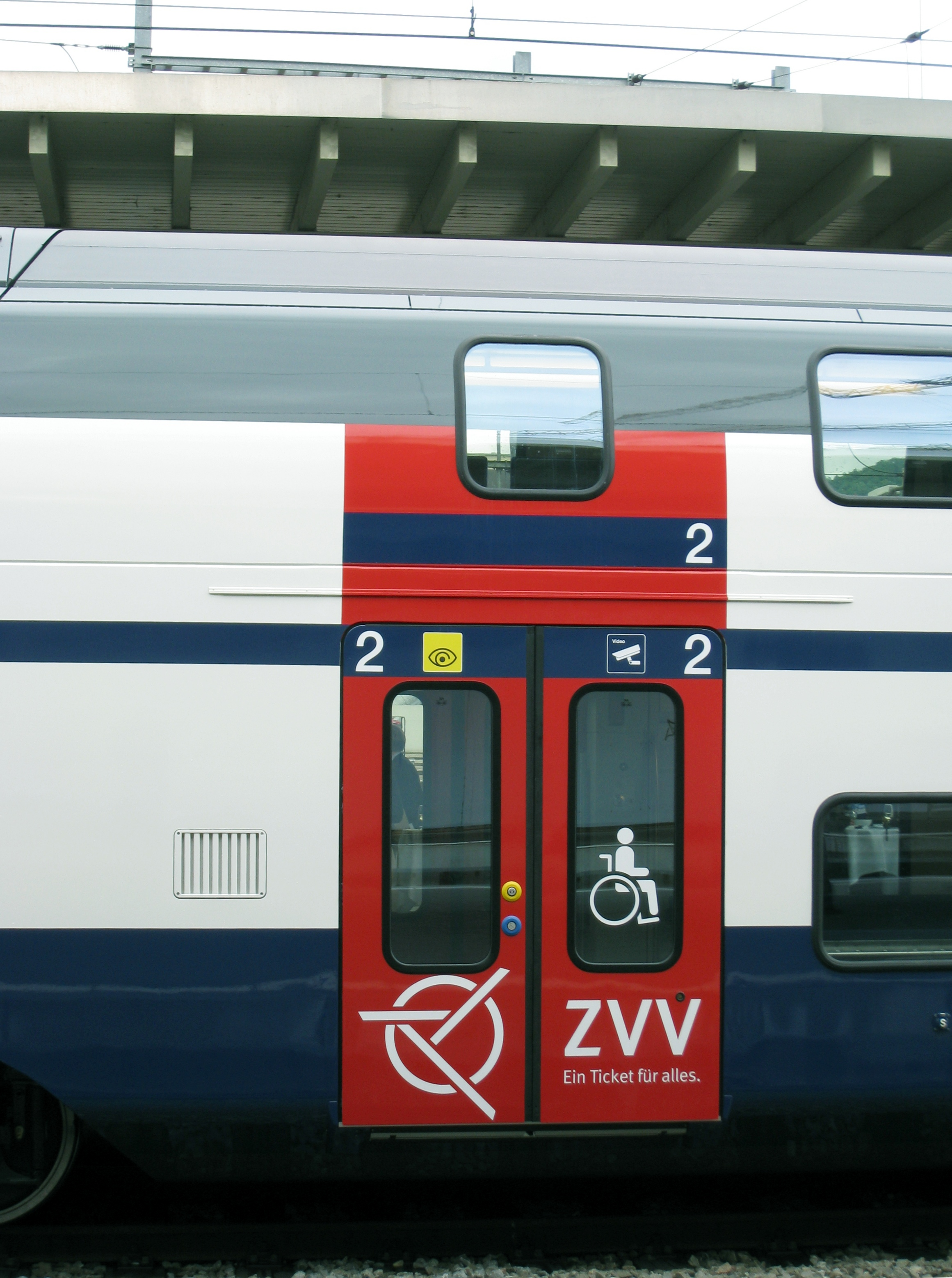 Doors of the SBB-CFF-FFS RABe 511 EMU (Stadler KISS).